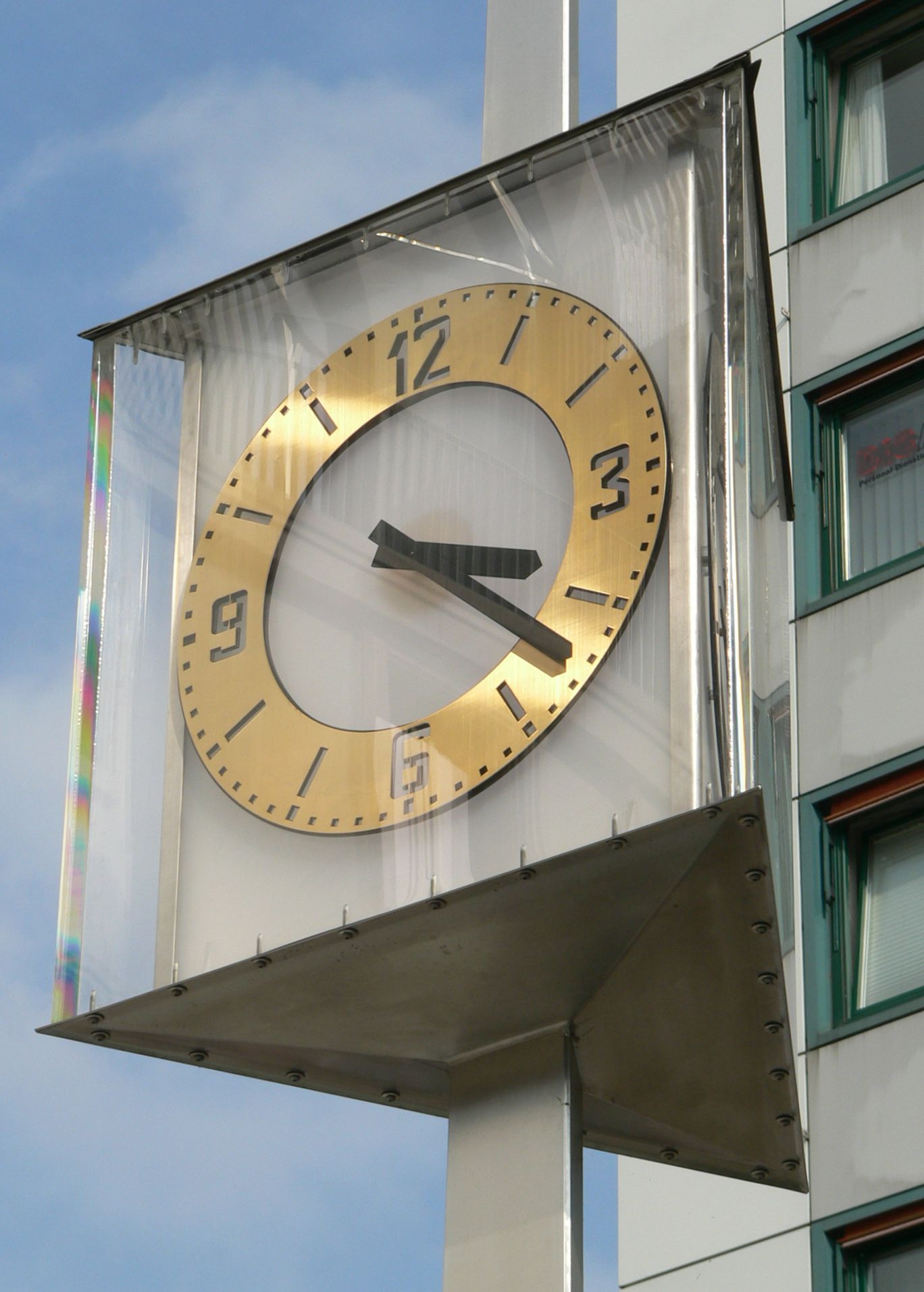 Street clock in Pforzheim, Germany